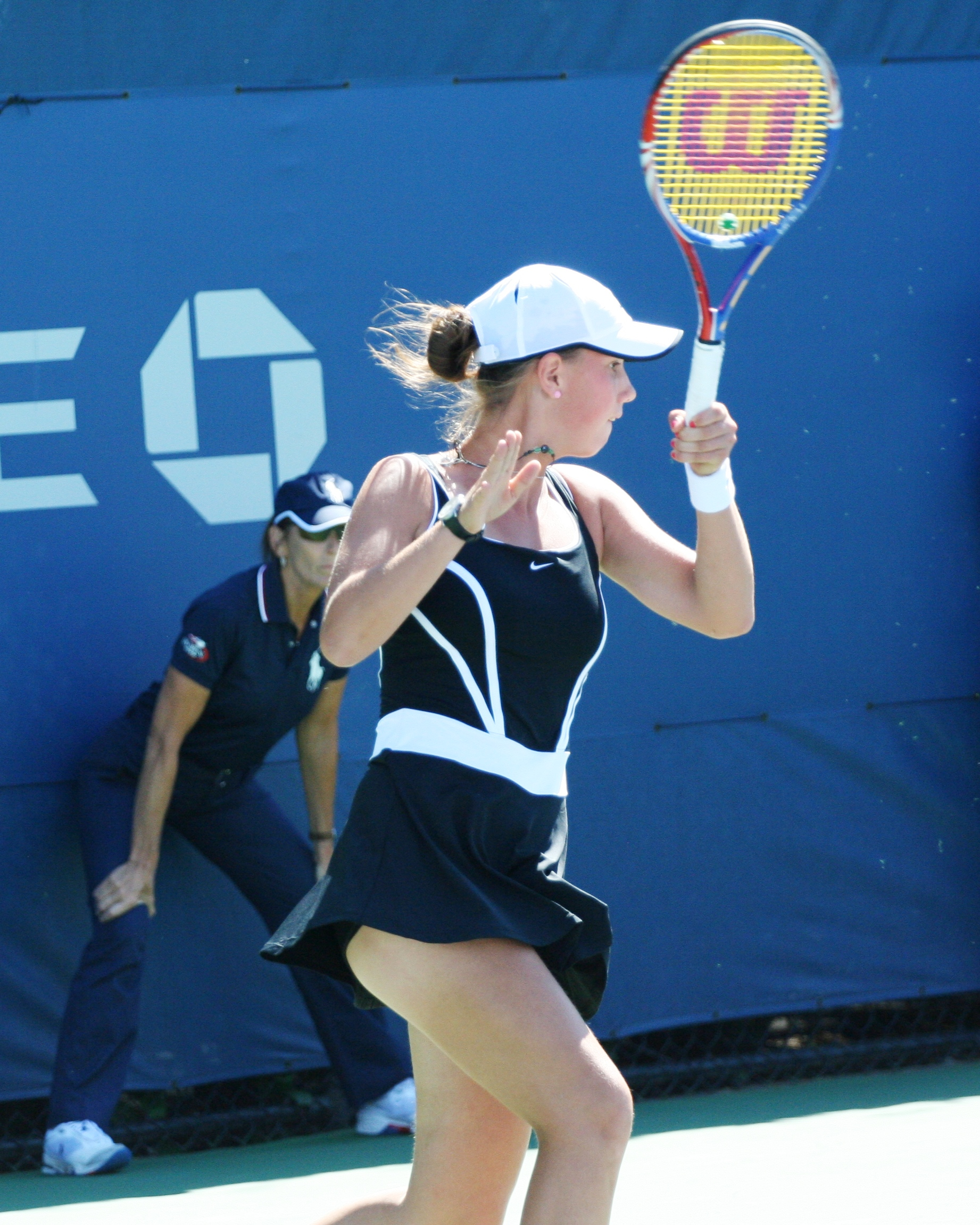 U.S. Open Juniors Sunday, Sept. 5, 2010